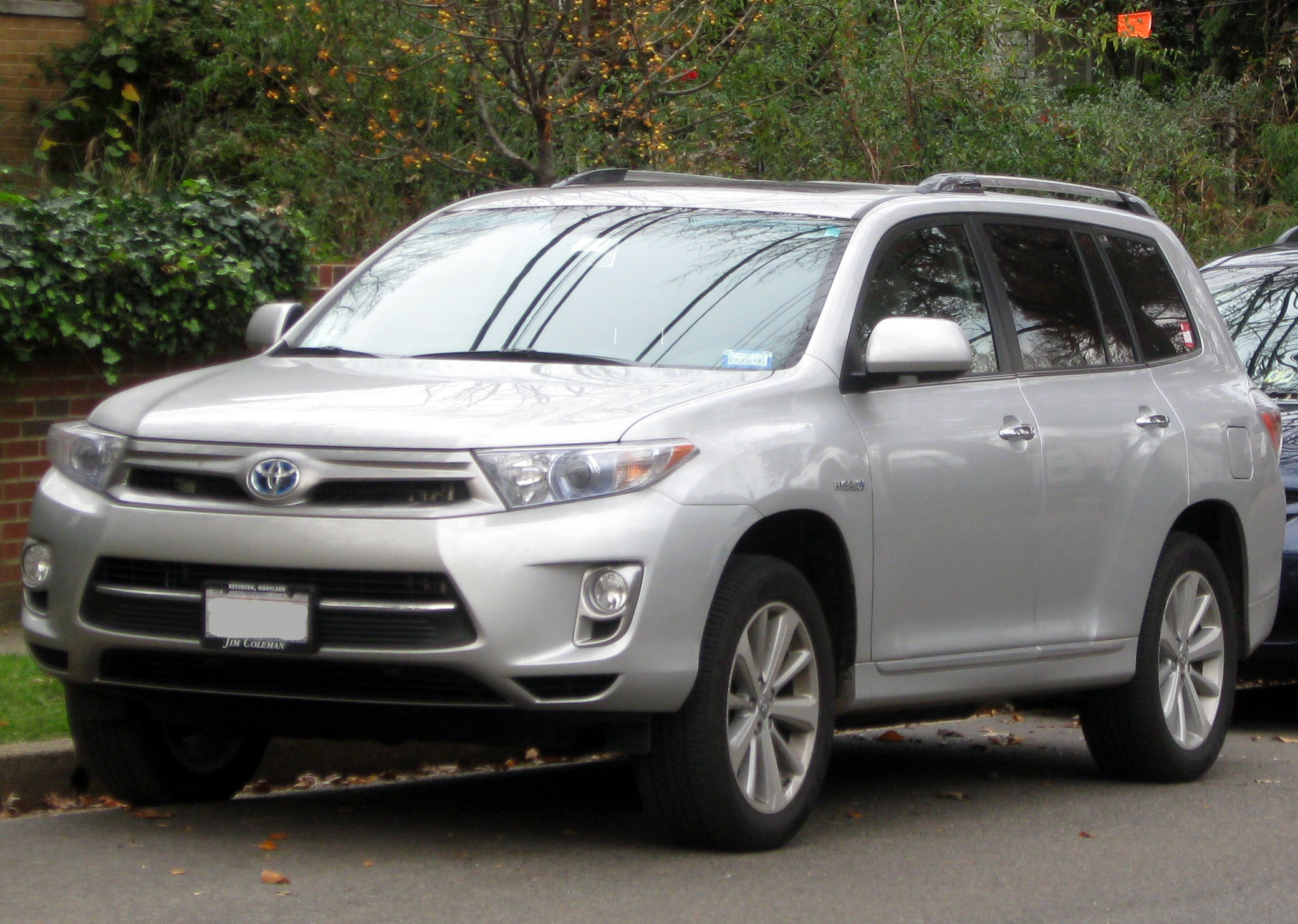 2011 Toyota Highlander Hybrid photographed in Washington, D.C., USA.